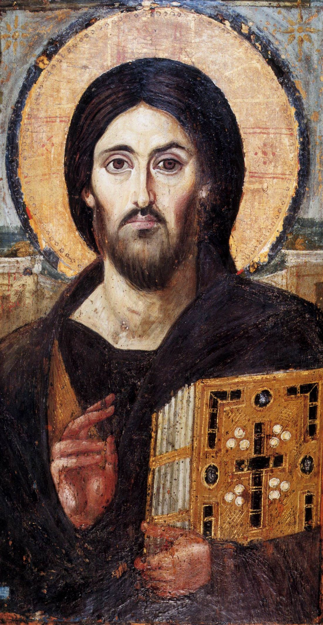 St. Catherine's Monastery, Mount Sinai, Egypt